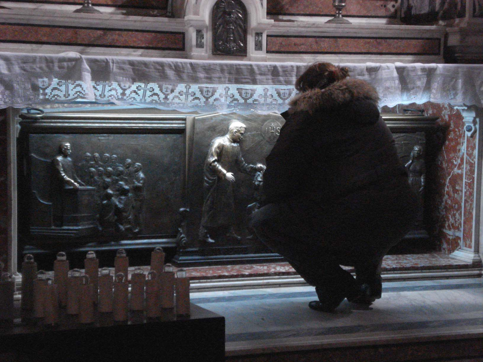 St Giuseppe Moscati's altar with his body inside it